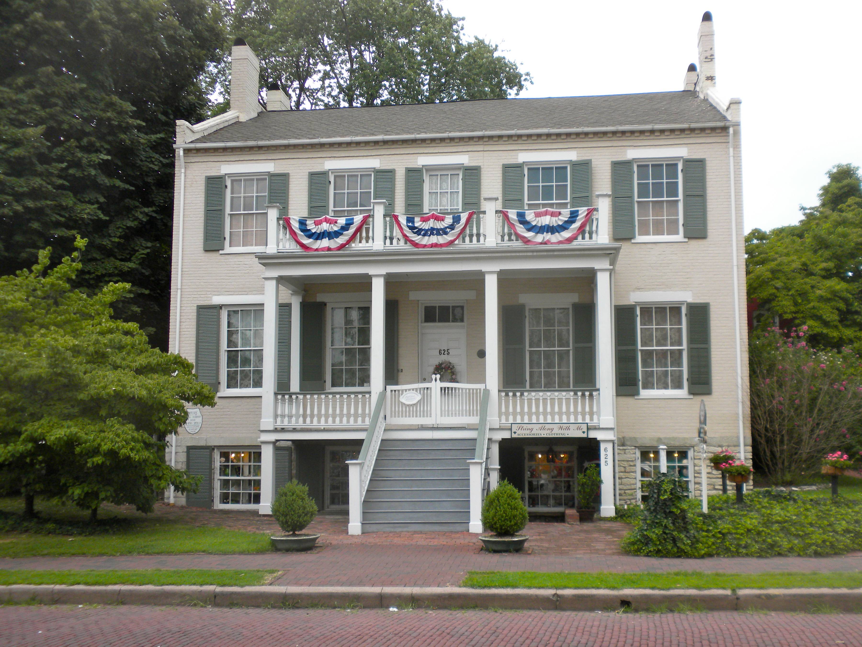 Newbill-McElhiney House on the NRHP since April 11, 1972. At 625 S. Main St., St. Charles, Missouri. In the main Historic District in town as well as being separately listed